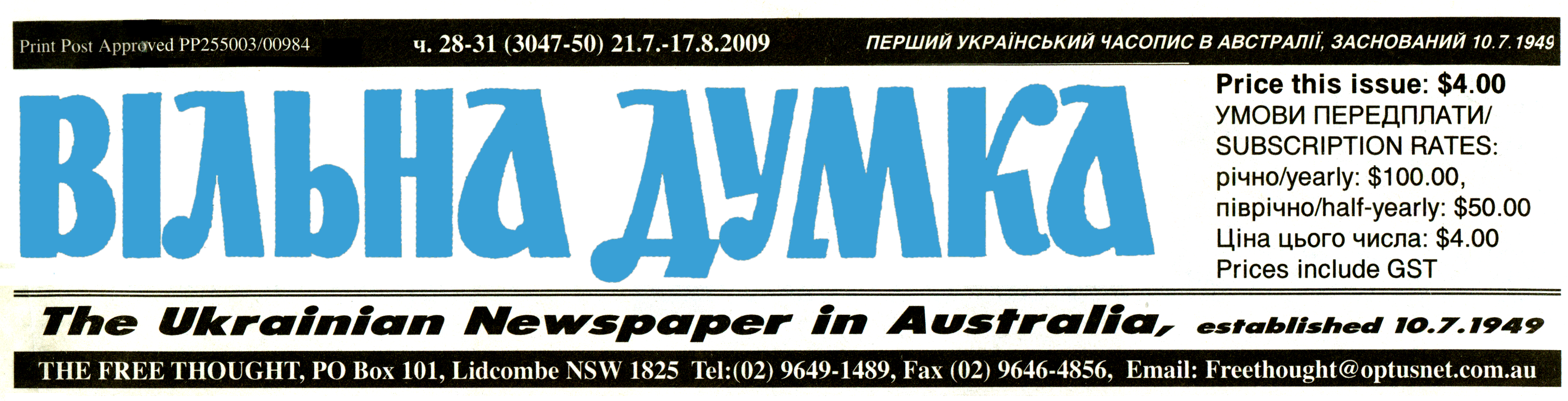 Scan of text-logo from cover of the Ukrainian language newspaper "The Free Thought"